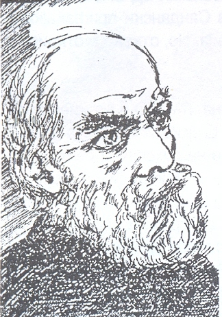 portrait